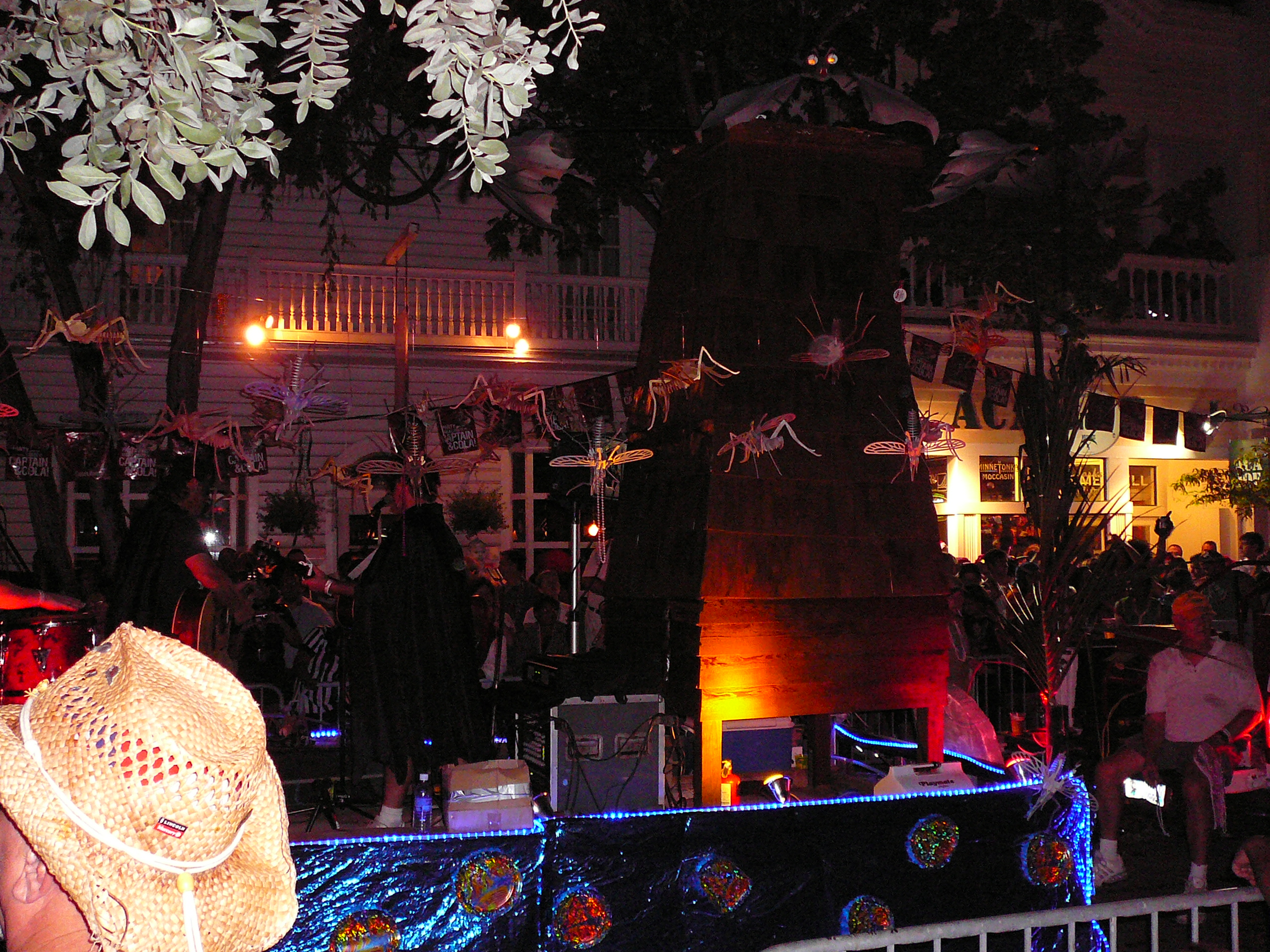 Digital photo taken by Marc Averette. Fantasy Fest parade float of the historic Sugarloaf Key bat tower 10/25/2008.